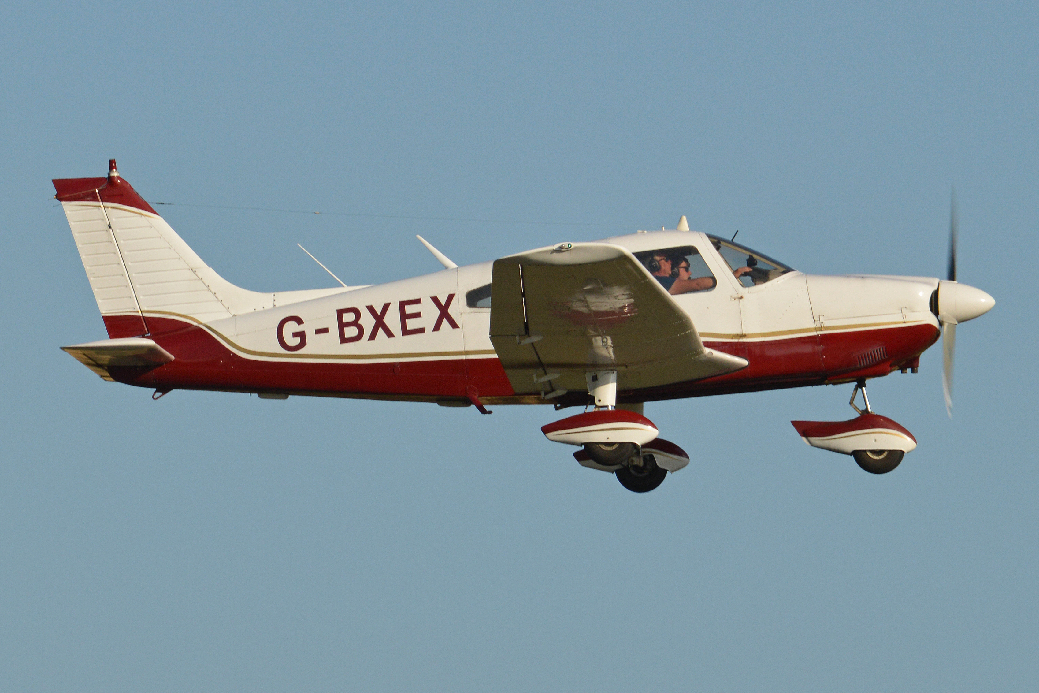 c/n 28-7790463. Built 1977. Seen departing after visiting at the 2017 Flying Legends Airshow, Duxford Airfield, Cambridgeshire, UK. 8th July 2017